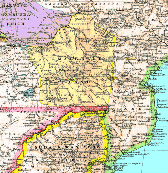 An 1887 map of southern Africa showing Matabeleland (part of present-day Zimbabwe). This is a retouched picture, which means that it has been digitally altered from its original version. Modifications: Extraneous German-language labels removed, converted to PNG format. The original can be viewed here: Matabeleland.gif. Modifications made by Fvasconcellos.